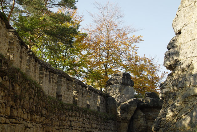 Description: Helfenburk Castle in Northern Bohemia, Czech Republic Source: My own work Author: Bernd Janning, Date: 15.10.05